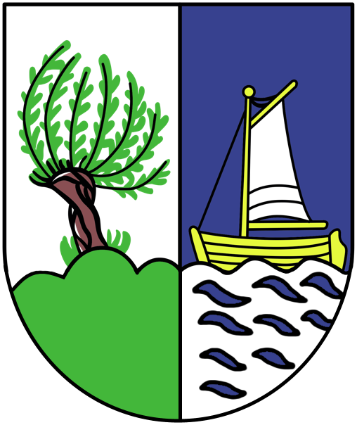 Coat of arms of the Stadt (town) Geesthacht in Schleswig-Holstein, Germany.